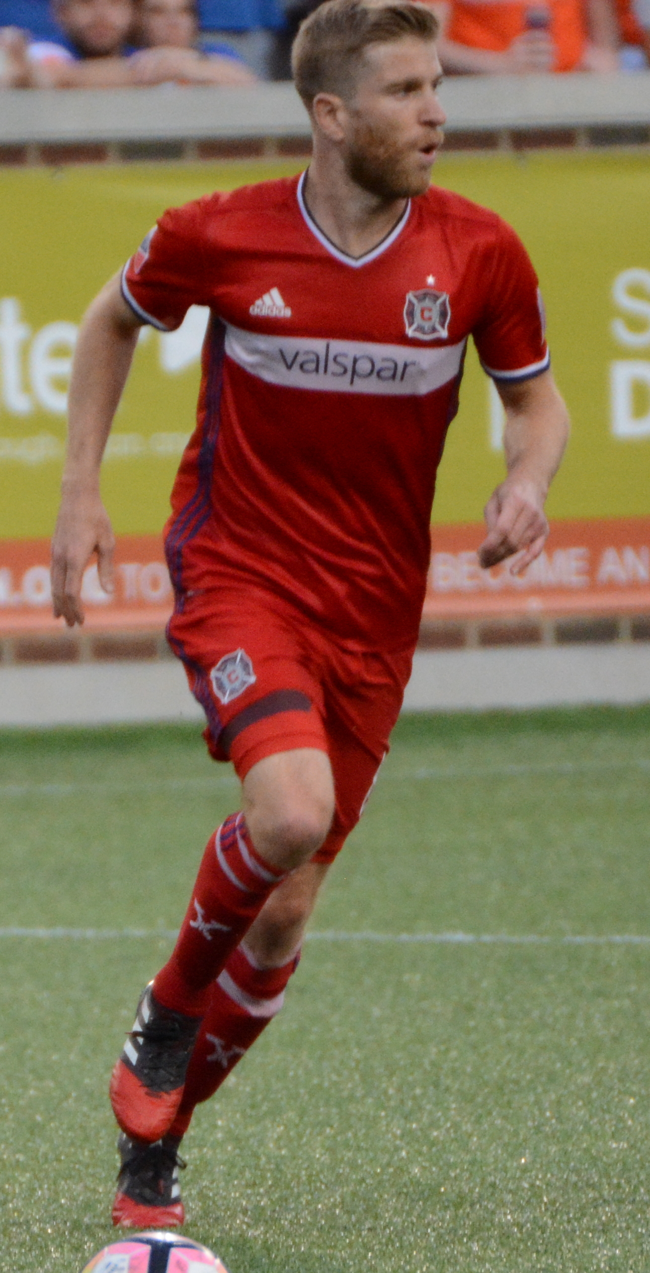 Taken at a U.S. Open Cup match between FC Cincinnati and Chicago Fire SC at Nippert Stadium in Cincinnati, Ohio on June 28, 2017.